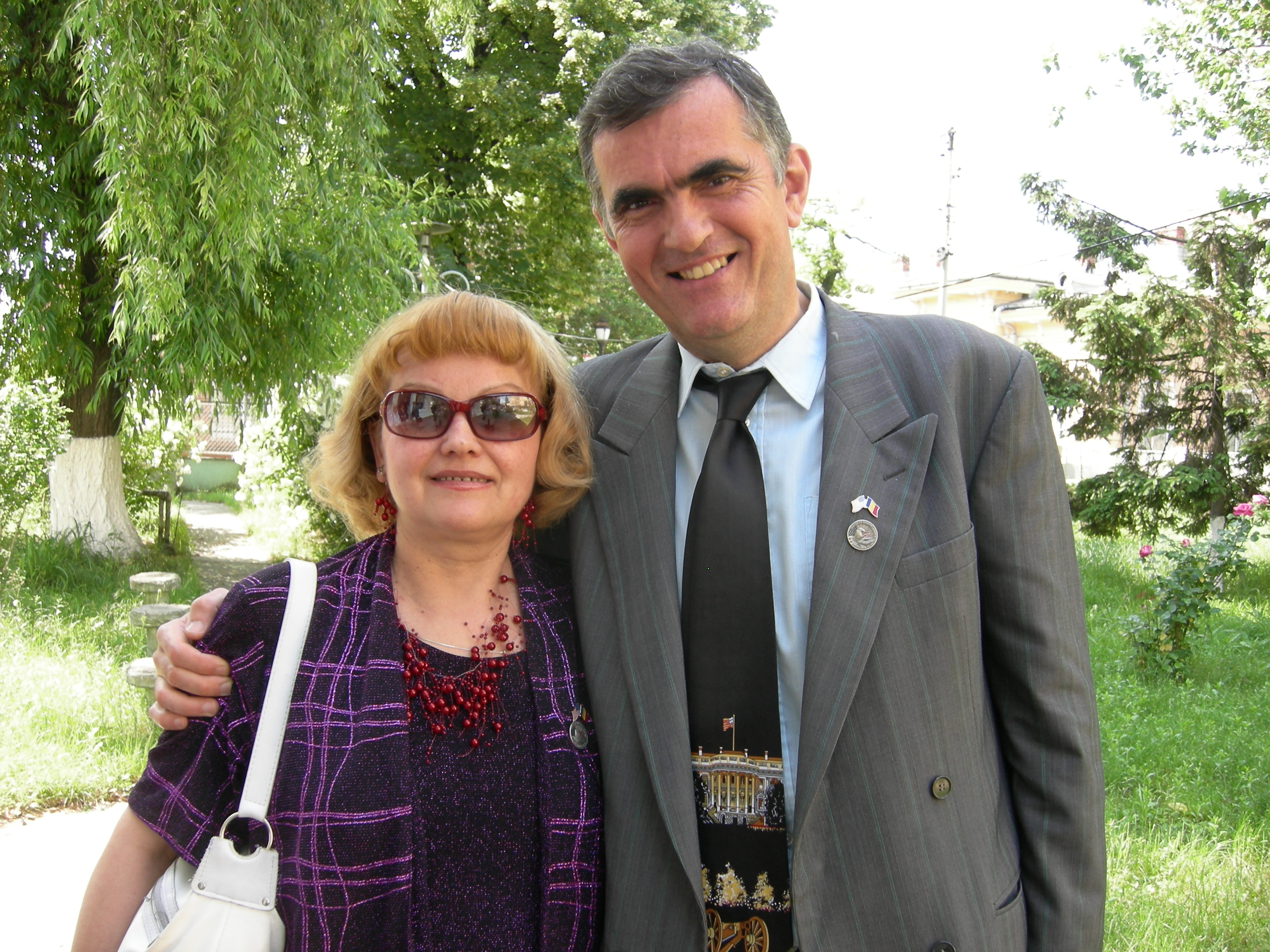 DUO INTERMEDIA: Liana Alexandra & Serban Nichifor